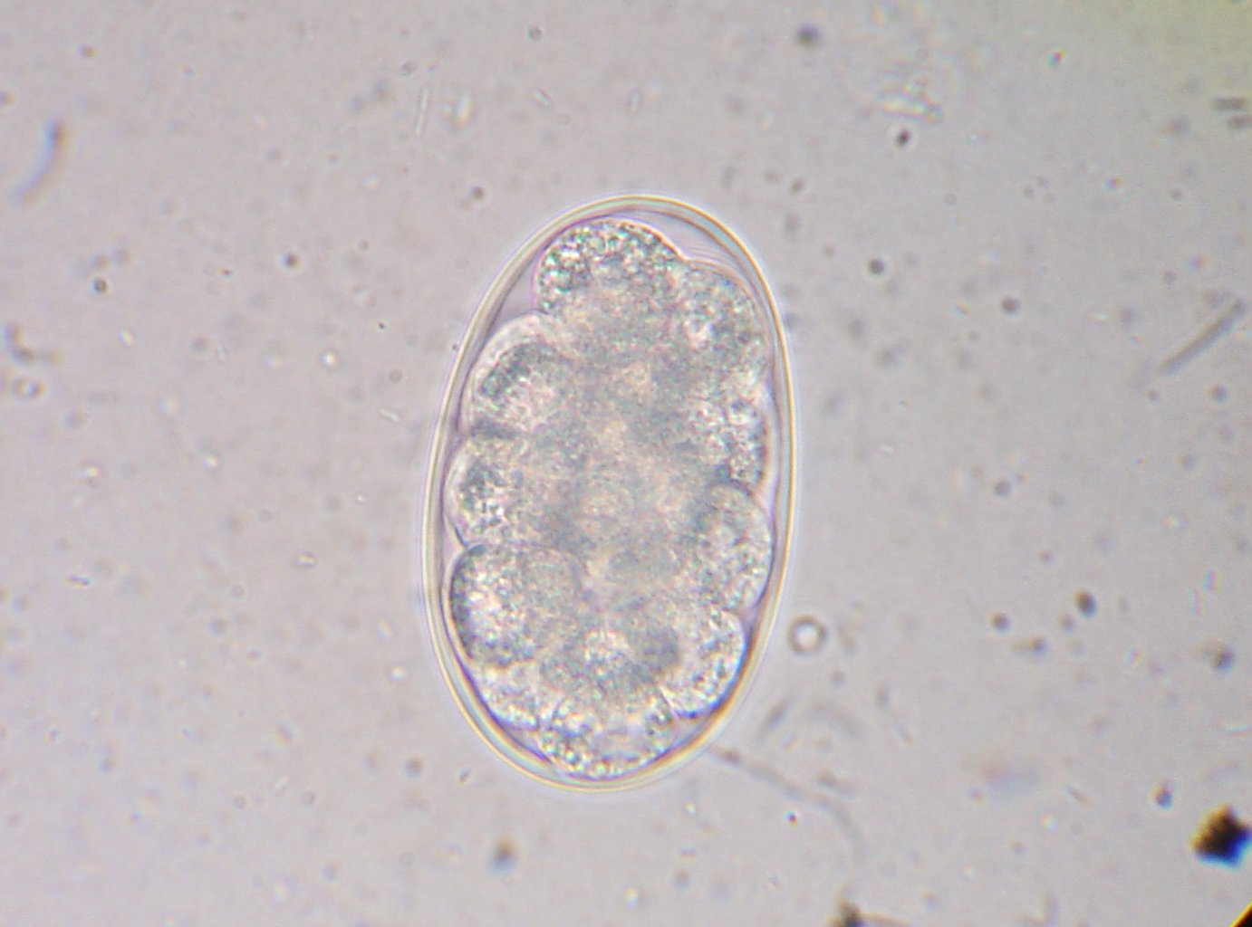 A hookworm (Ancylostoma caninum) egg found in the fecal sample of a dog. Photo taken through a microscope at 1000x.